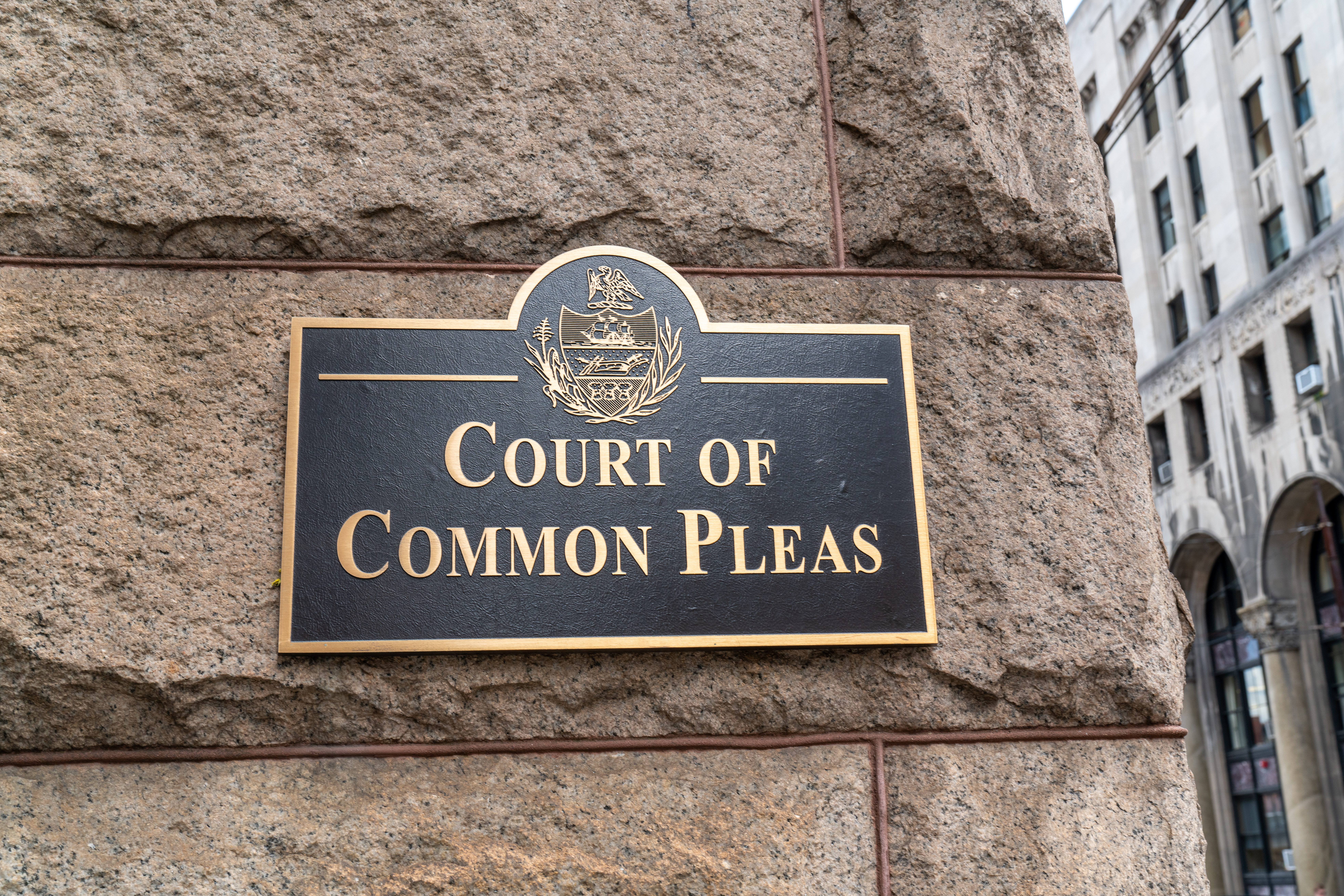 The Court of Common Pleas at the Allegheny County Courthouse in downtown Pittsburgh, Pennsylvania. The Courts of Common Pleas are the trial courts of the State of Pennsylvania, and are where most major criminal and civil cases are heard.